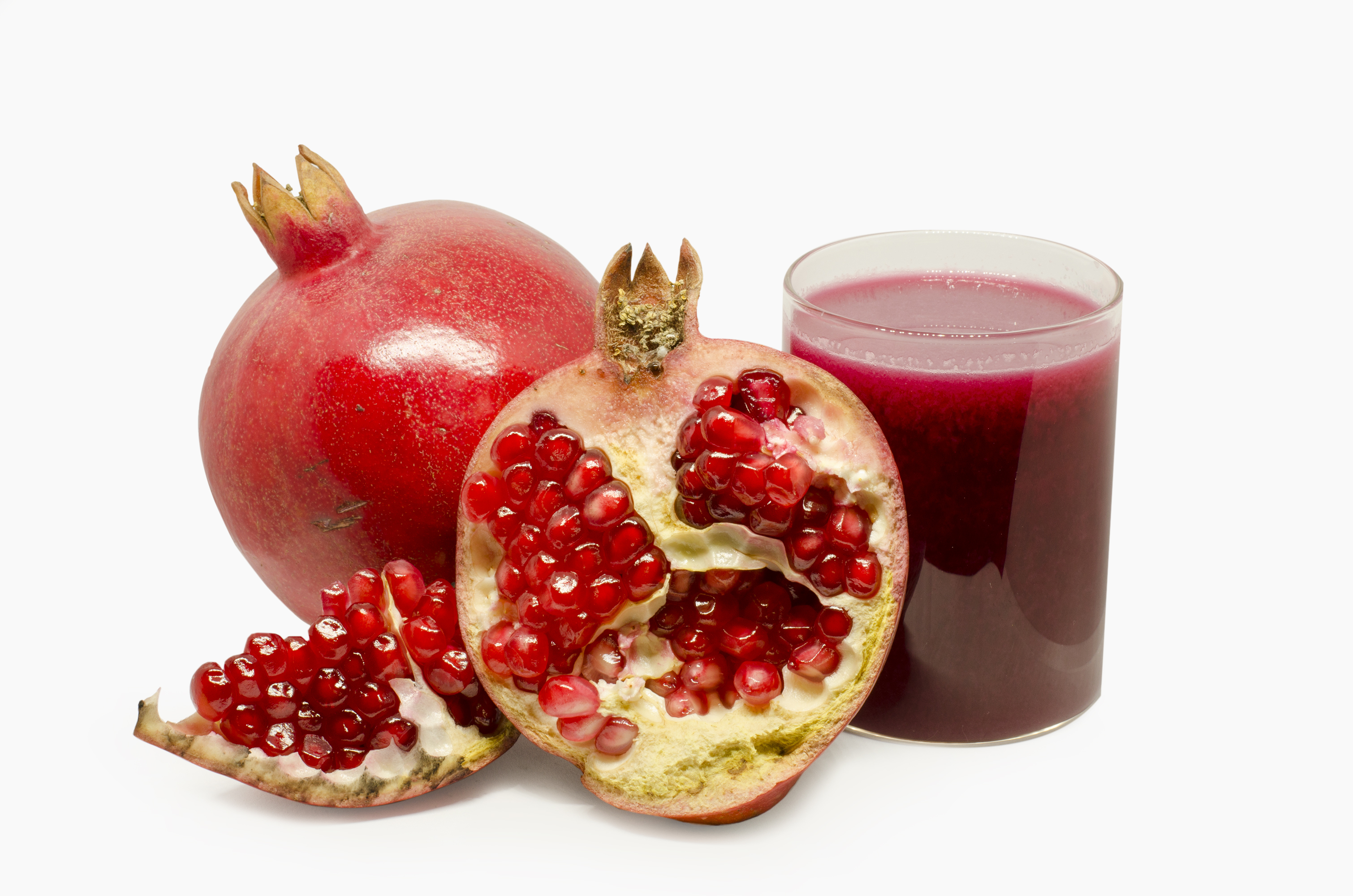 Pomegranate Juice (2019)